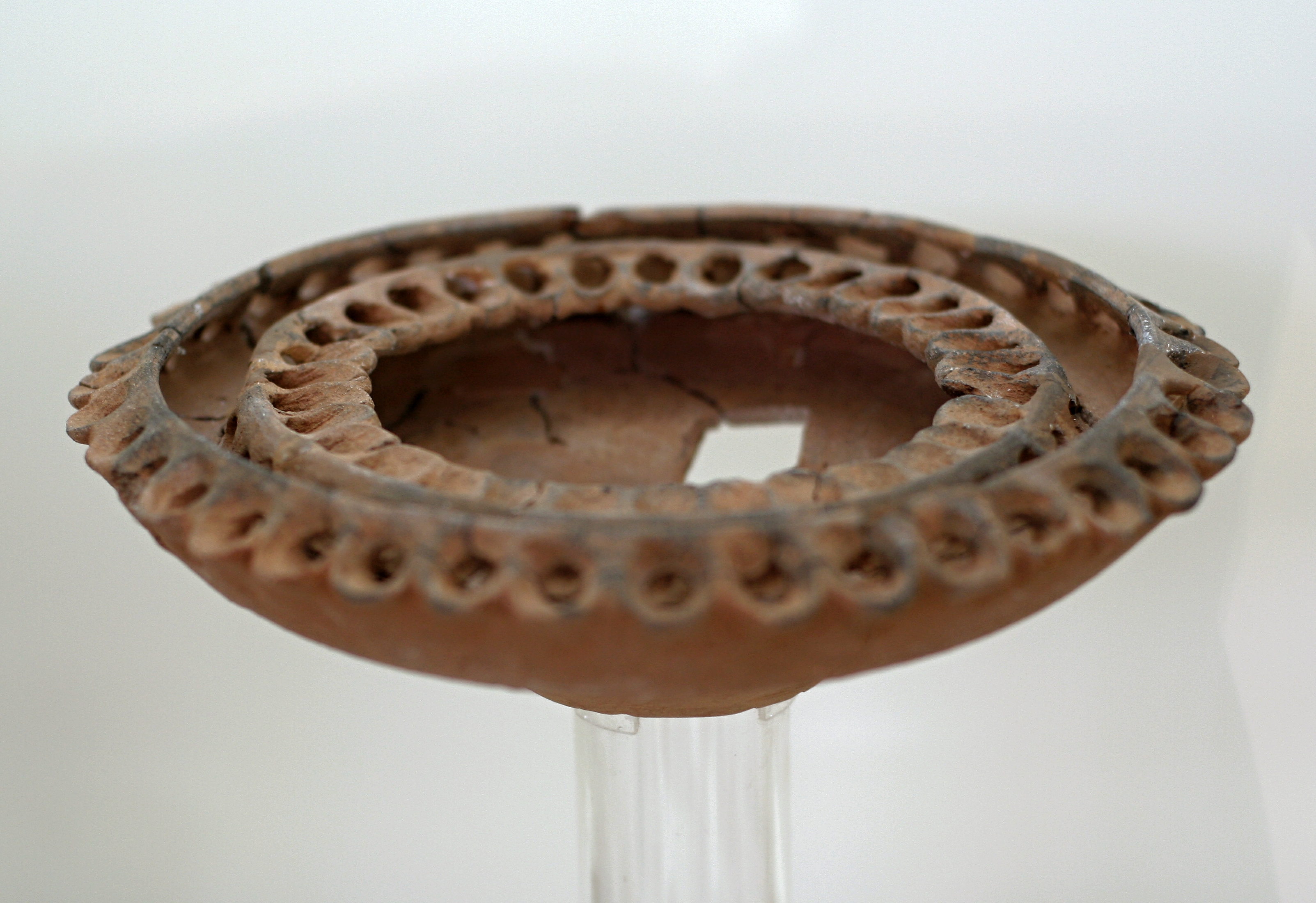 Multiple lamp, terracotta from the open-air sanctuary or form votive pit in Olous (Elounda), 700-400 BC. Archaeological Museum of Agios Nikolaos.